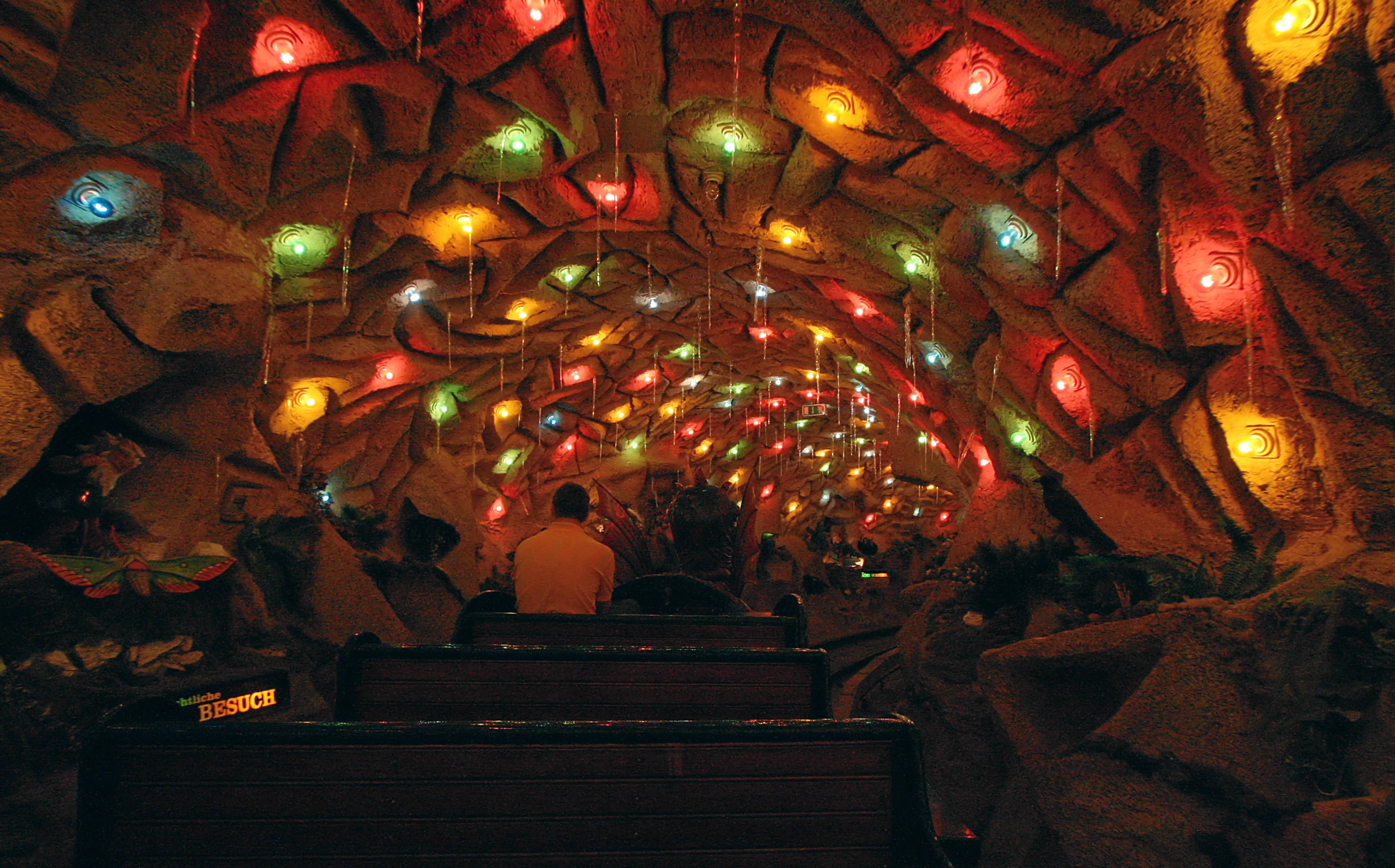 Riding the Grottenbahn in Linz